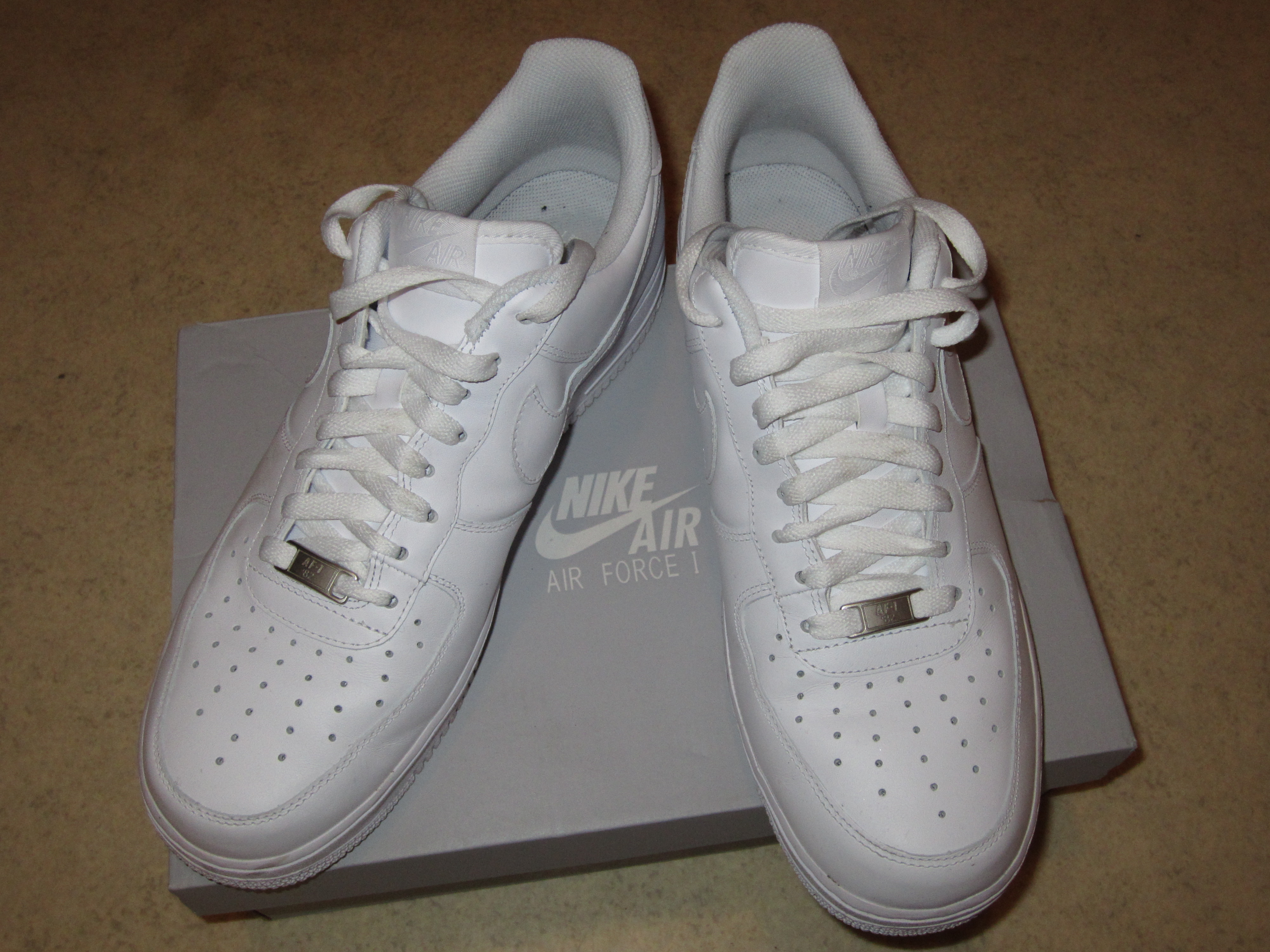 Classic basketball shoe "Air Force 1" by Nike.